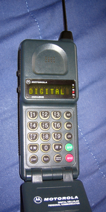 A 1994 Motorola MicroTAC "MicroDigital" model in dark green with a green LED display. This phone operates on the AMPS, NAMPS, and TDMA digital networks. DIGITAL displays when the phone is turned on to indicate that it is operating on the TDMA network. There is a menu item selection that allows the user to switch to analog- only operation. These phones are quite rare.